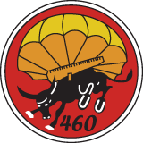 Image is the logo of the 460th Parachute Field Artillery Battalion, part of the 517th Parachute Regimental Combat Team. The logo was designed by Richard "Dick" Spencer III of the 517th during WWII. It has been re-rendered into a gif format. Considered public domain. From site